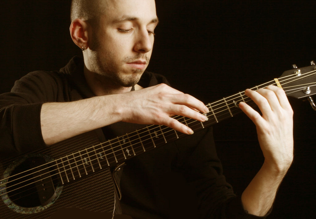 Personnal photo shooting of Erik Mongrain in 2007.